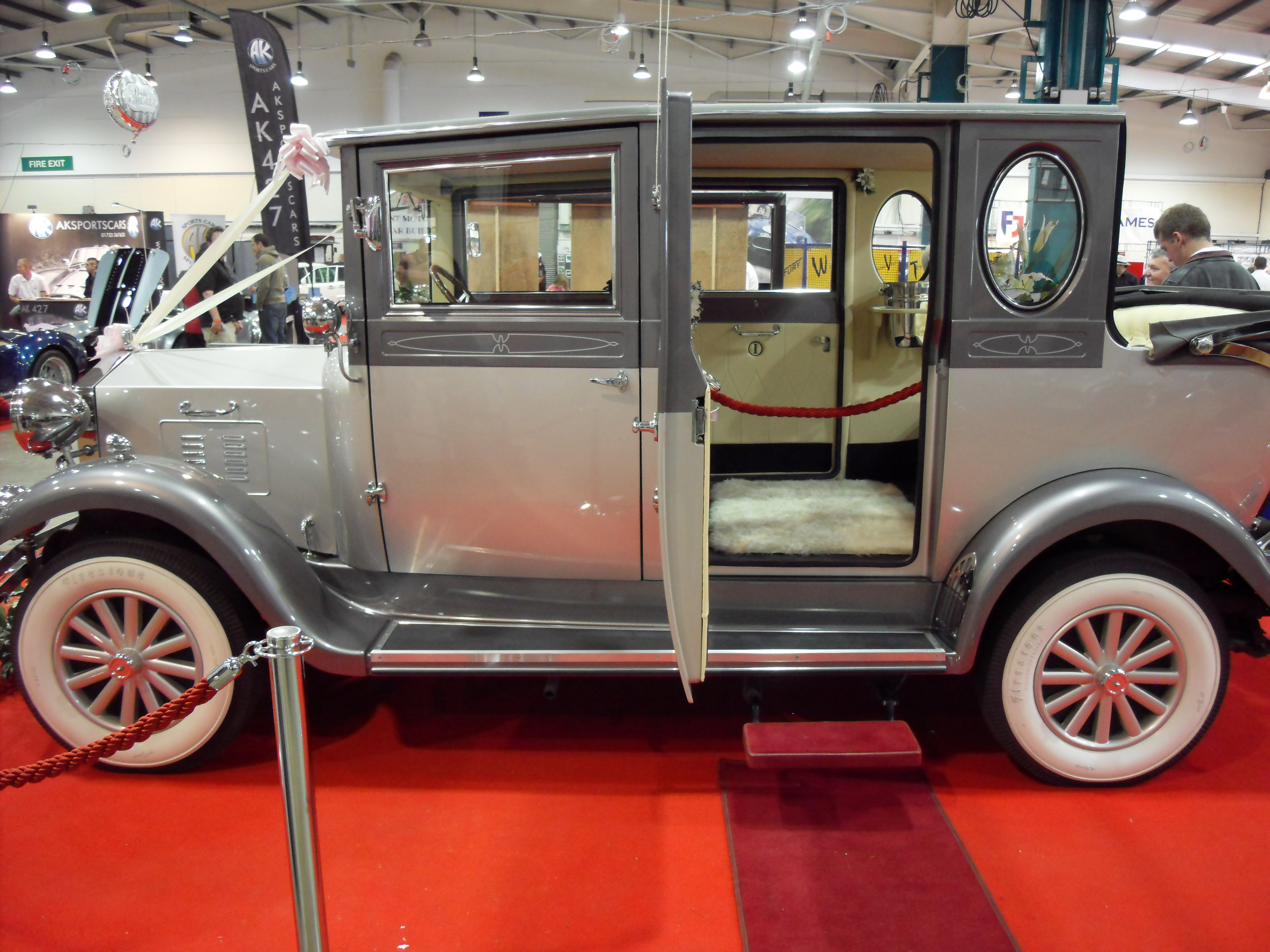 National Kit Car Show Stoneleigh 2011